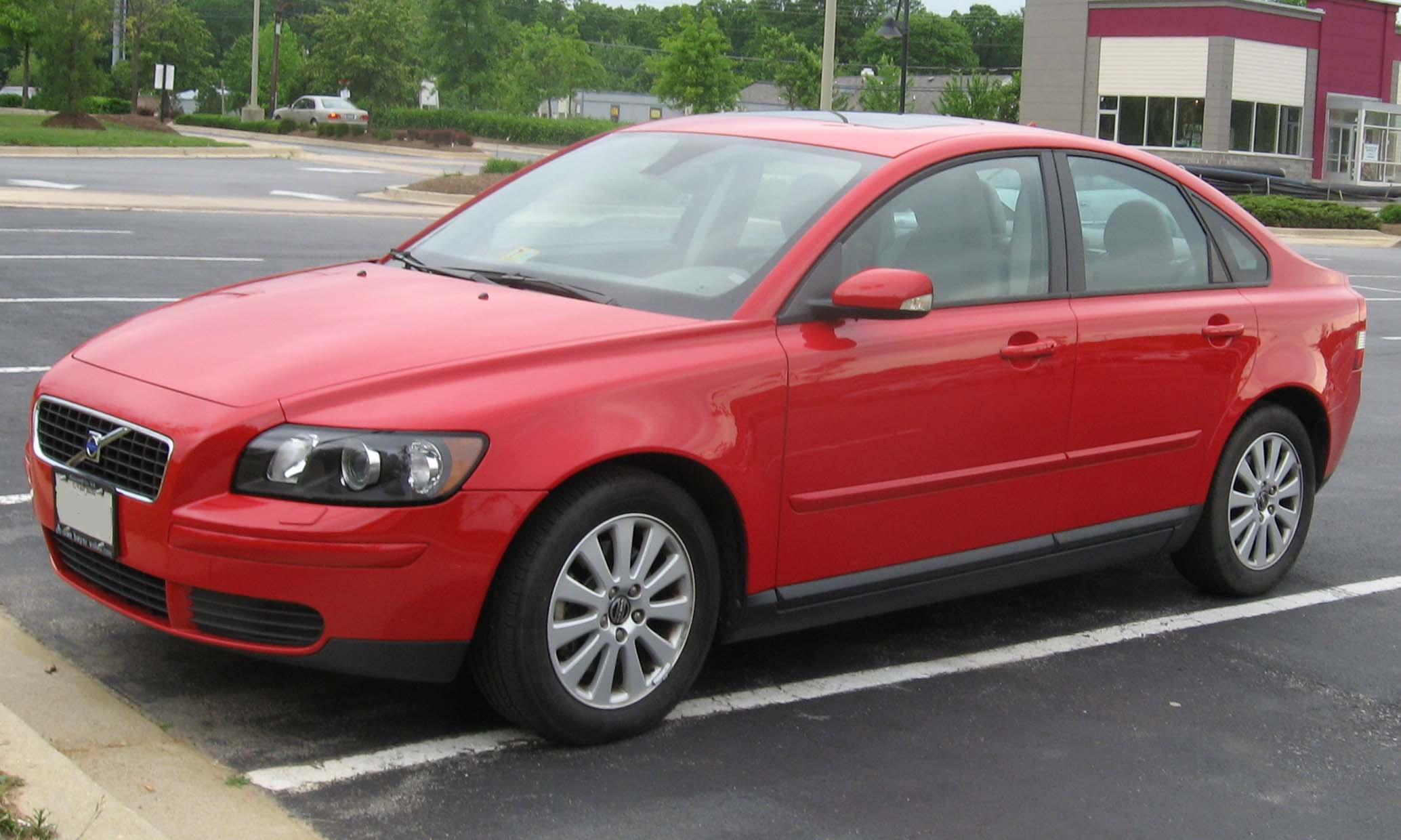 2004-2007 Volvo S40 photographed in USA.